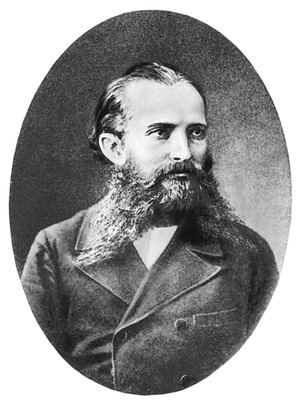 Bolshakov Segrey Tikhonovich